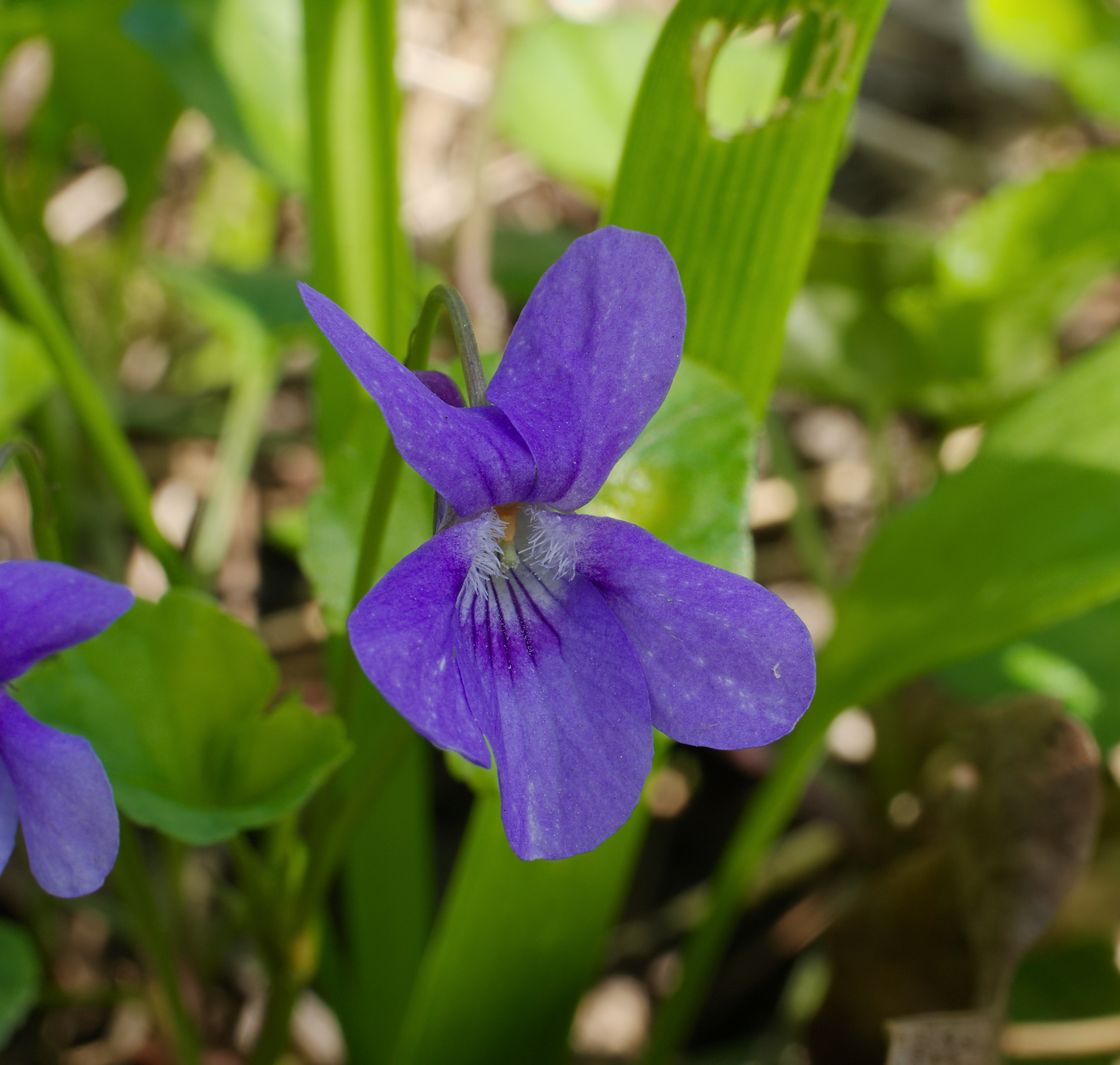 Early dog-violet - Viola reichenbachiana. Taken in Waldpark in Mannheim-Neckarau, Baden-Württemberg, Germany.